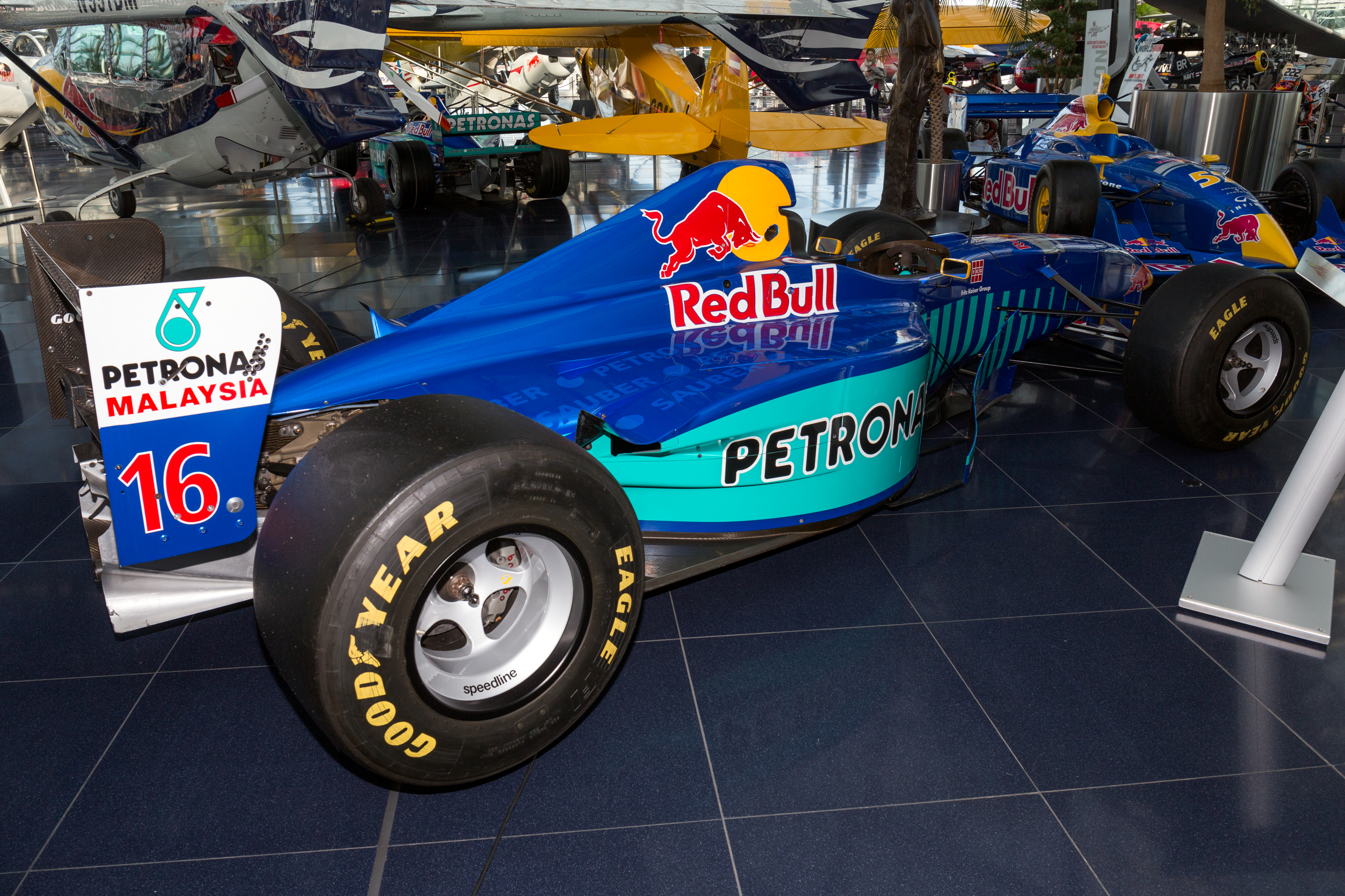 Hangar-7: Sauber C16